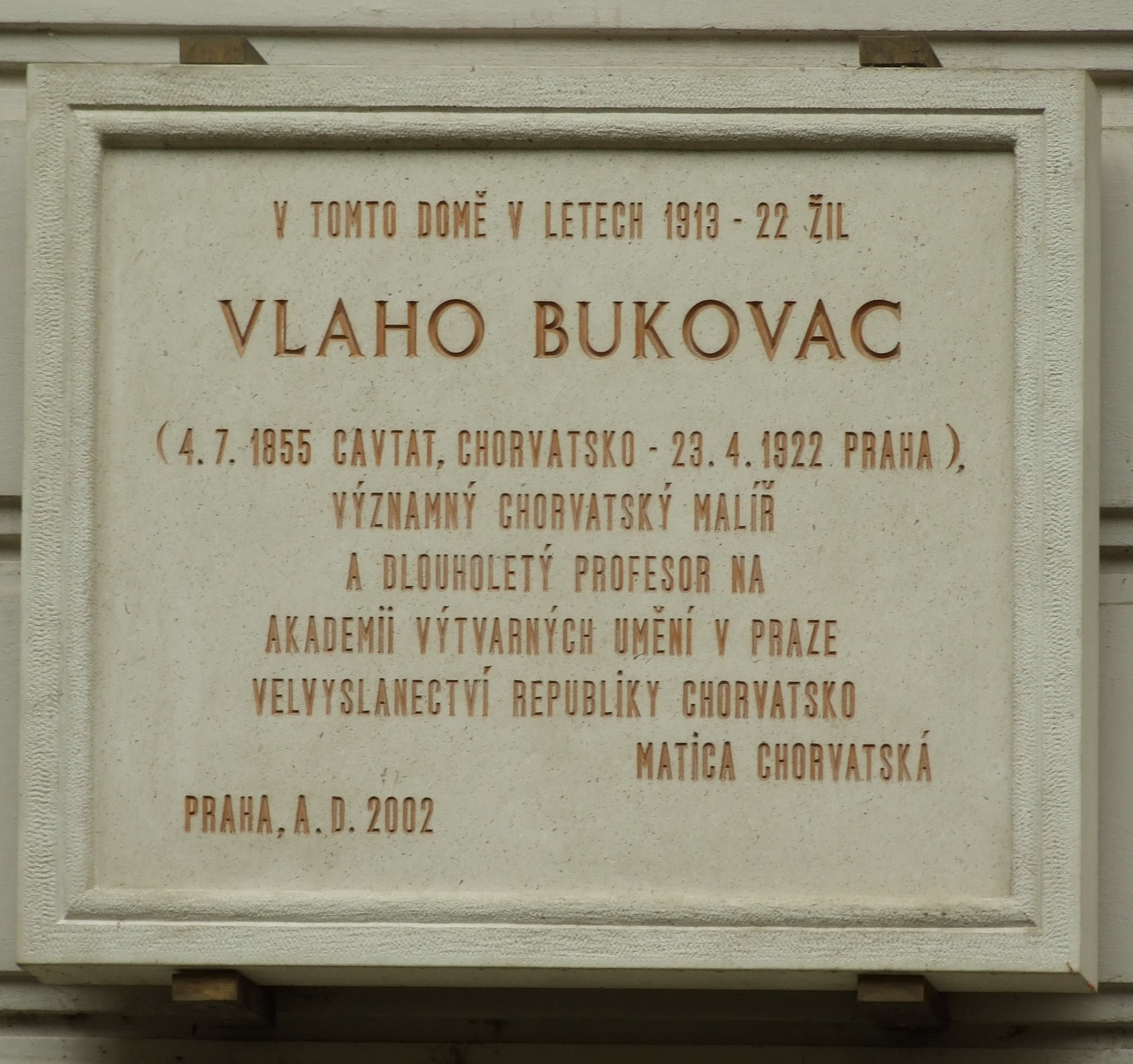 Plaque dedicated to croatian painter Vlaho Bukovac , Prague, CZhelp